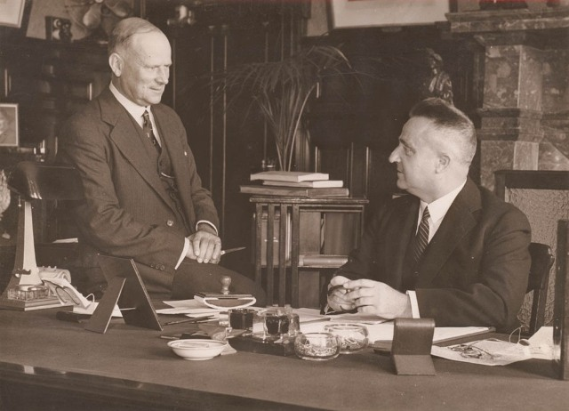 Deputy Premier Michael Bruxner (left) with Premier Bertram Stevens in Stevens' office.